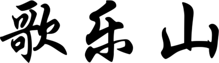 Chinese characters for Geleshan or Gēlèshān, a national park in Chongqing 中文（中国大陆）: 汉字为歌乐山 (歌乐山国家森林公园)